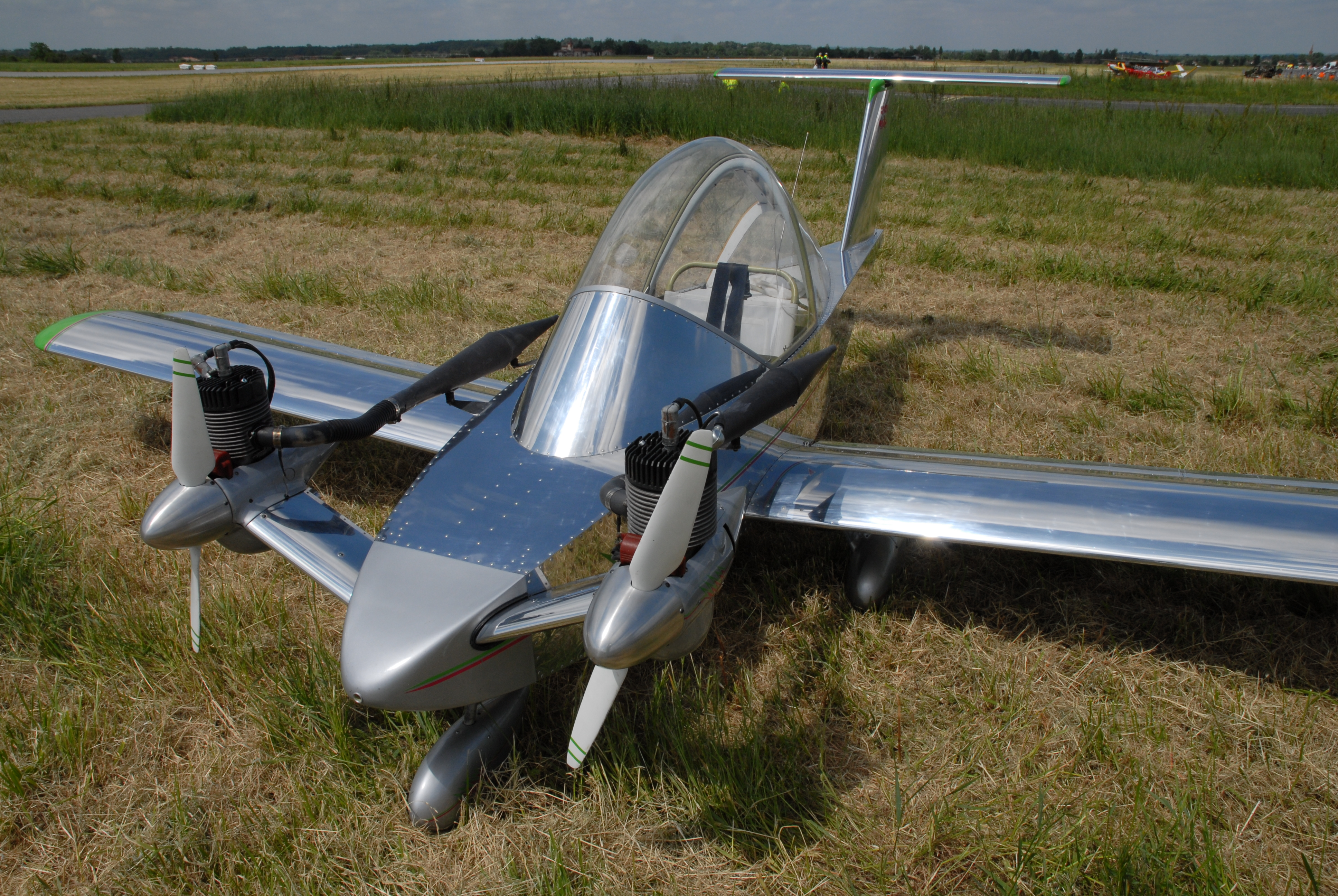 Photograph taken at the AirExpo 2007 air show in Muret-Lherm aerodrome near Toulouse, on May, 12th 2007.